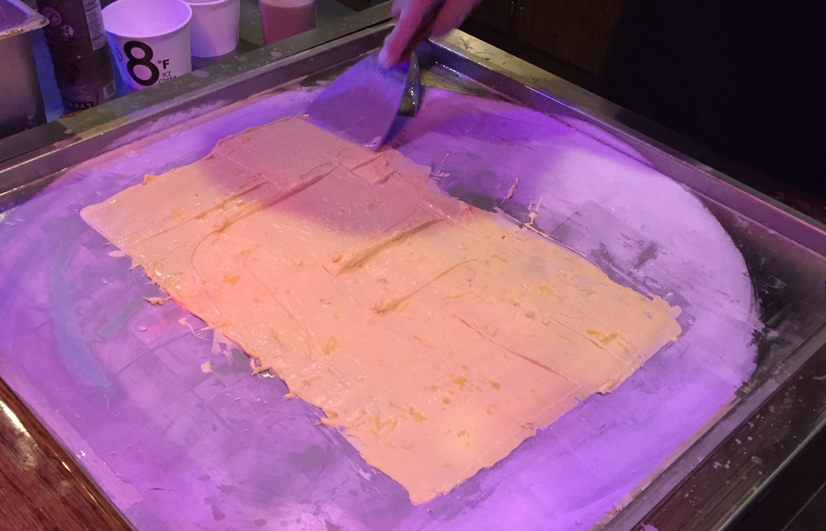 Stir-fried ice cream being prepared, September 2016